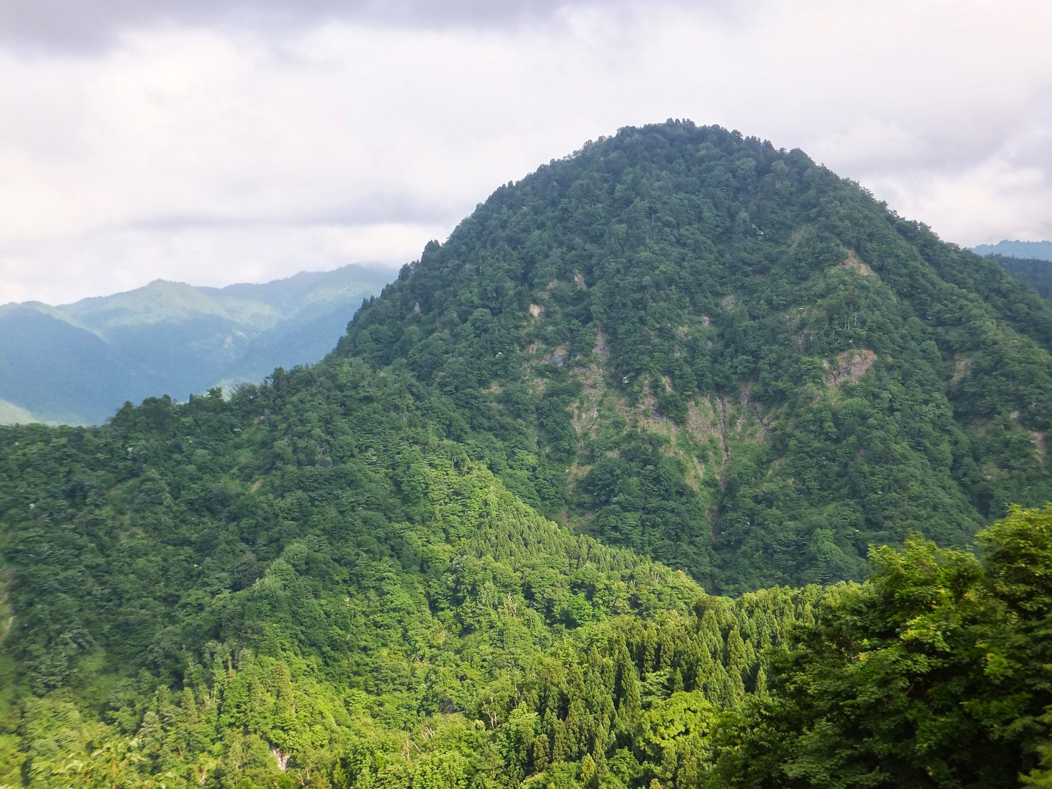 Mount Sofu (Sofudake) seen from the northwest.